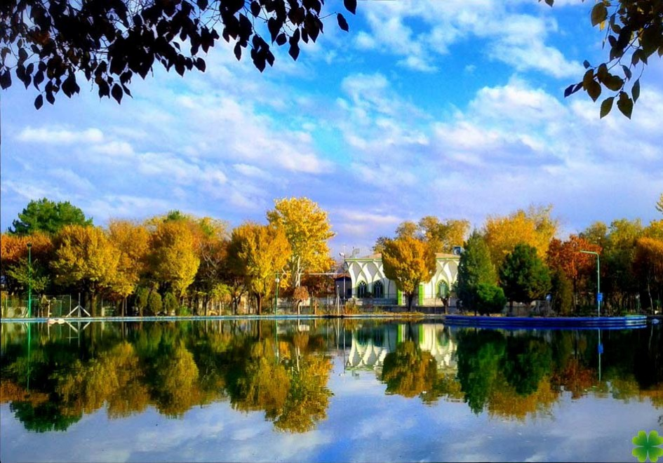 Shahr Park in Arak- Autumn 2011